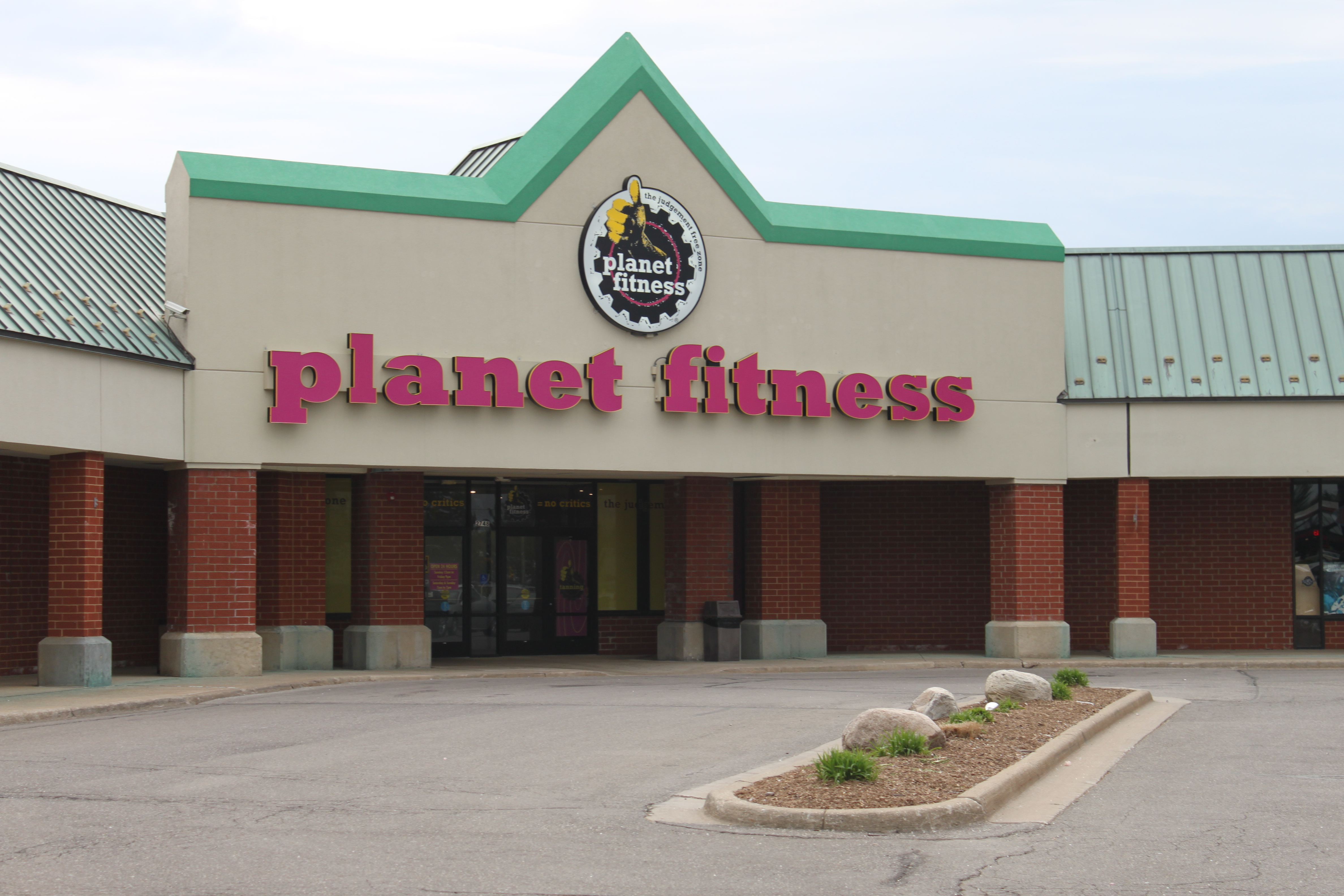 Planet Fitness location at 2748 Wastenaw Ave.,Ypsilanti Twp., Michigan 48197